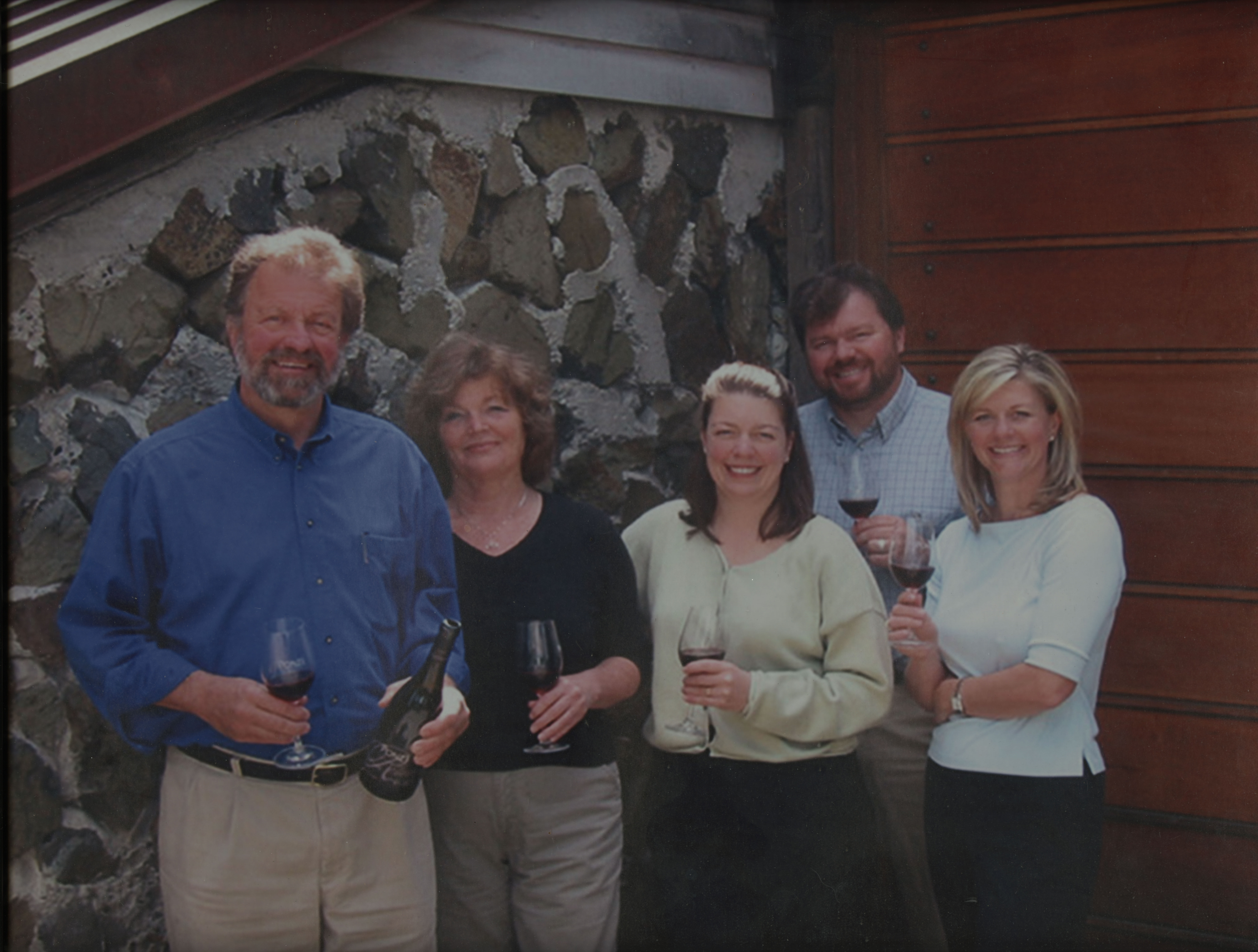 Dick and Nancy Ponzi stand with their three children at the winery, glasses in hand.